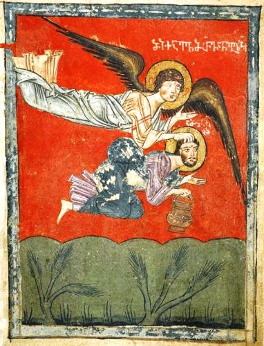 "Archangel Michael carries Habakkuk to the lions' den of Daniel." A miniature from the Georgian manuscript "Jruchi Gospels", 13th-15th cc.